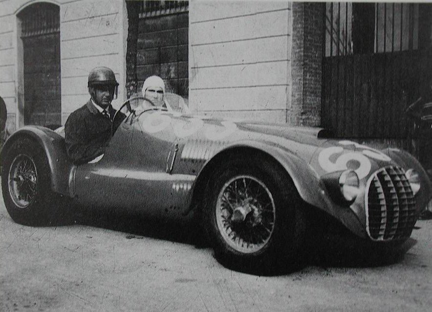 Roberto Vallone in his 1949 Ferrari 166 SC s/n 0012M at the Mille Miglia (before, perhaps) on 24 April 1949 with co-driver Sergio Sighinolfi. They had entry #633 but did not finish.[1]